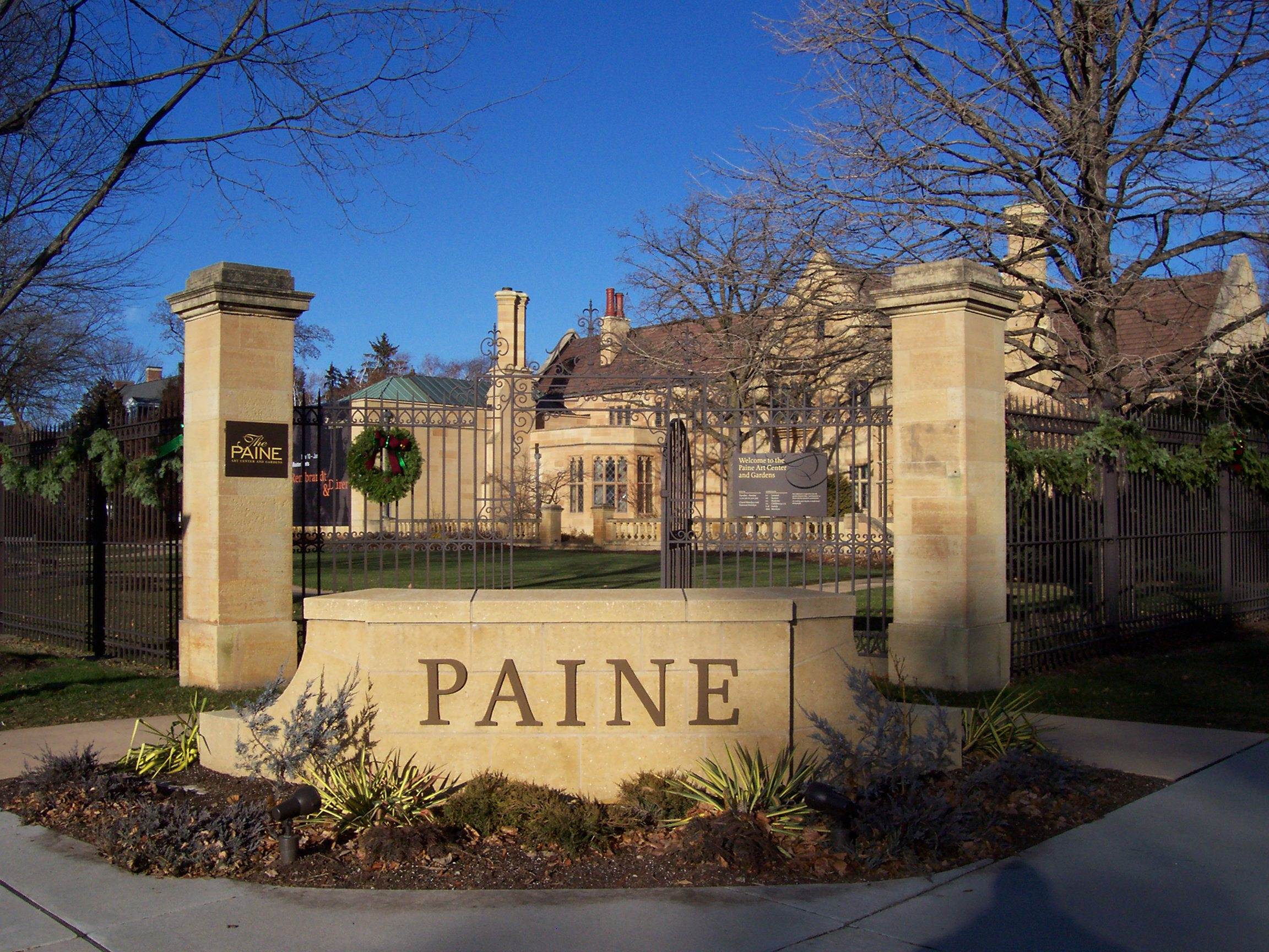 The entrance for the Paine Art Center and Gardens in Oshkosh, Wisconsin, USA. The place is listed on the National Register of Historic Places. It was the house for Nathan Paine.